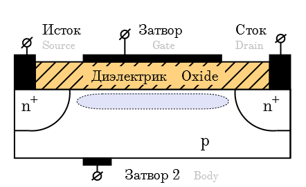 Two dimensional electron gas region formation in a n-channel FET structure. Captions in Russian added.